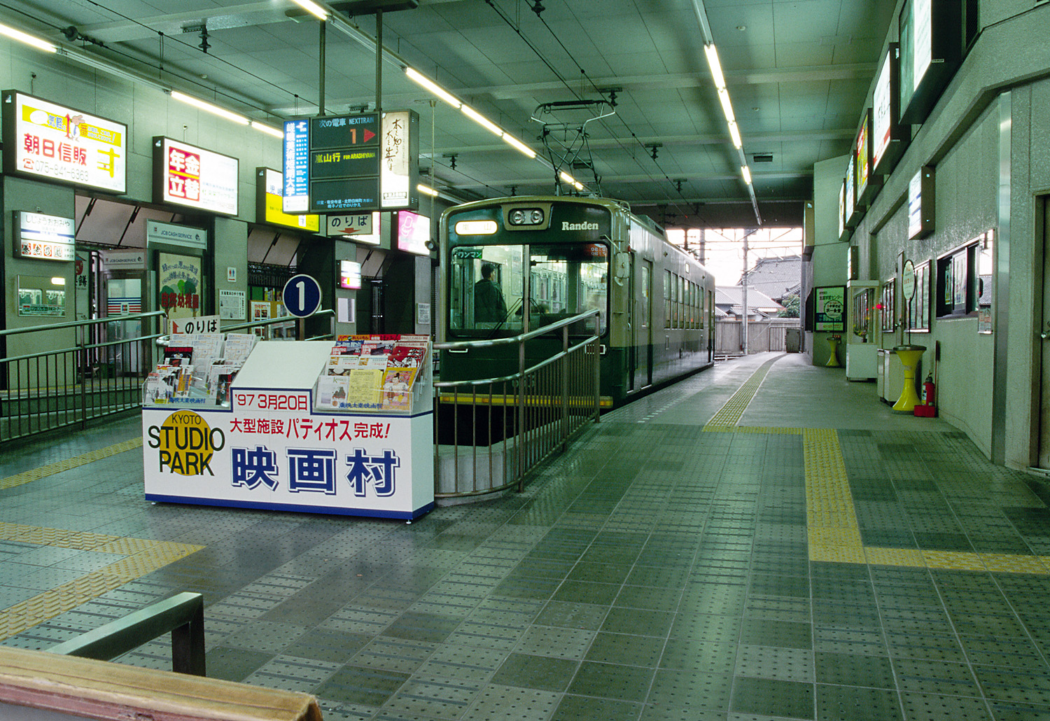 Train station of Keifuku Denki Tetsudo (京福電気鉄道). Location unrecorded; probably Shijo Omiya Station 四条大宮駅. I took this photo and contribute my rights in the file to the public domain; individuals and organizations retain rights to images in it.